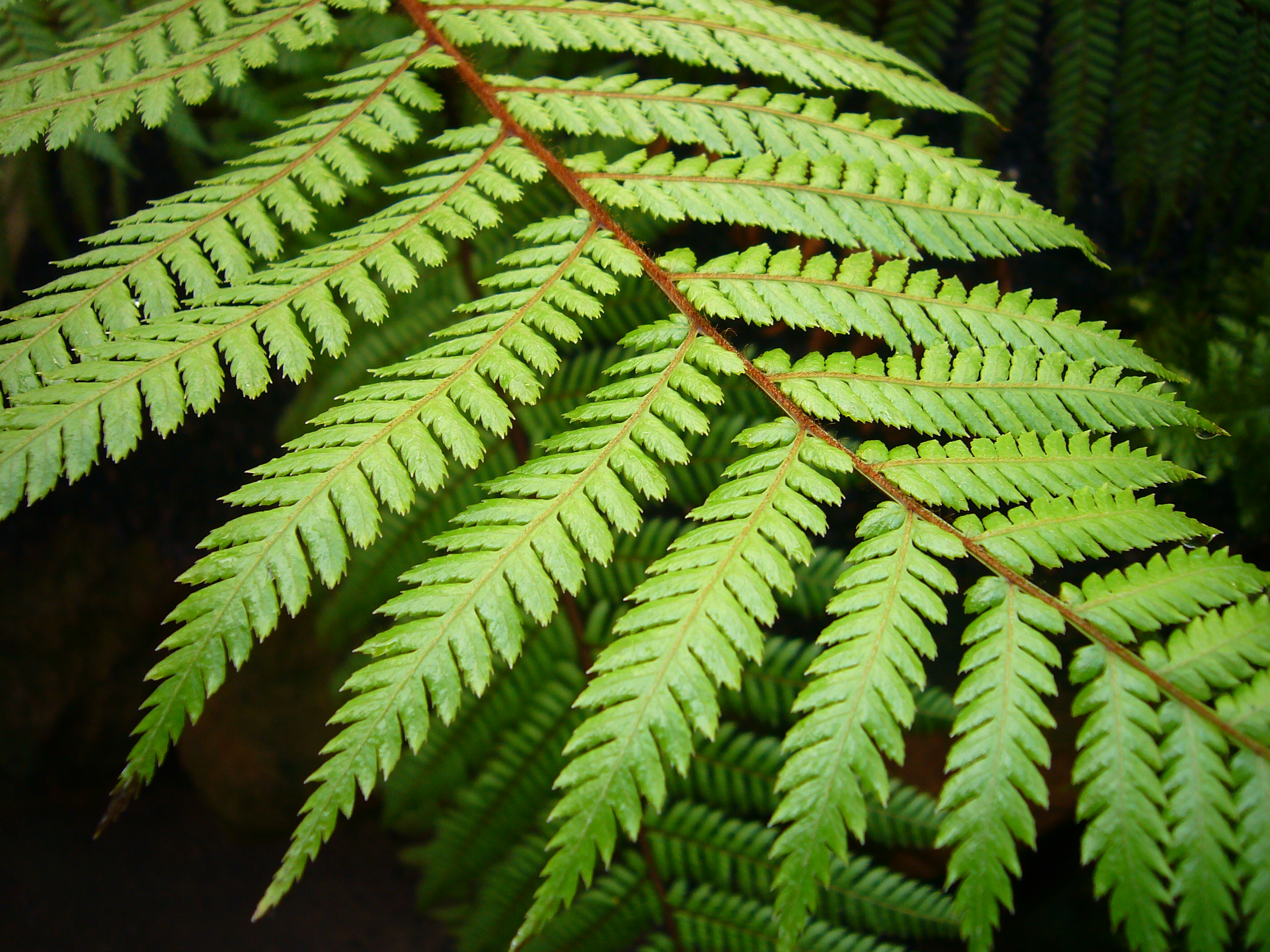 Dicksonia squarrosa, Cambridge University Botanic Garden